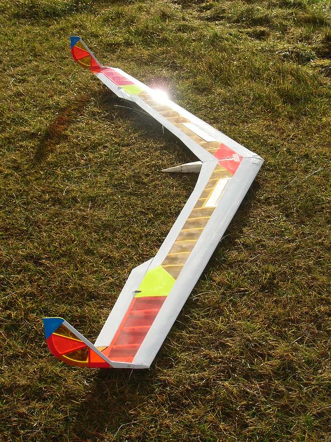 Blended Wing with winglets